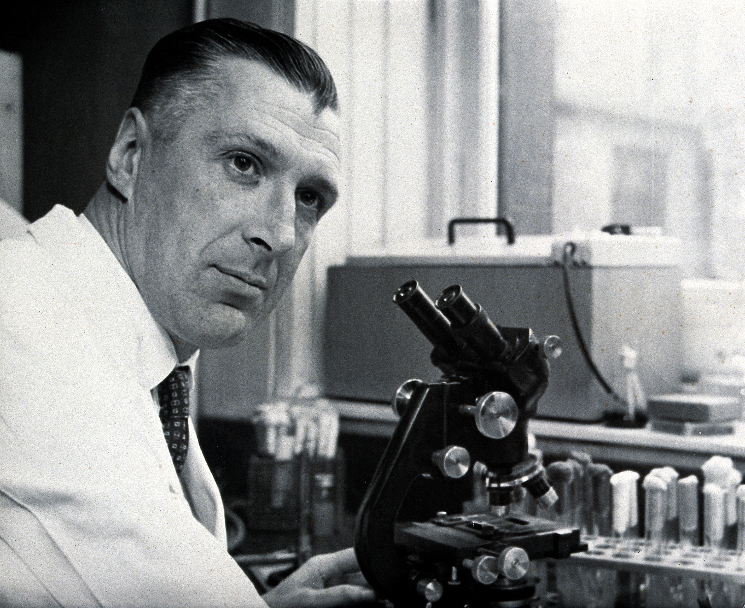 James C. Gentles. Photograph, 1958. Iconographic Collections Keywords: portrait photographs